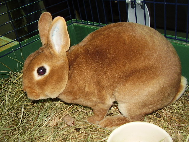 Fickó, my mikrorex(zwergrex) rabbit in Deutschland. Breader: Andreas Hutzler. Hi is "Very good" 95 punkte.